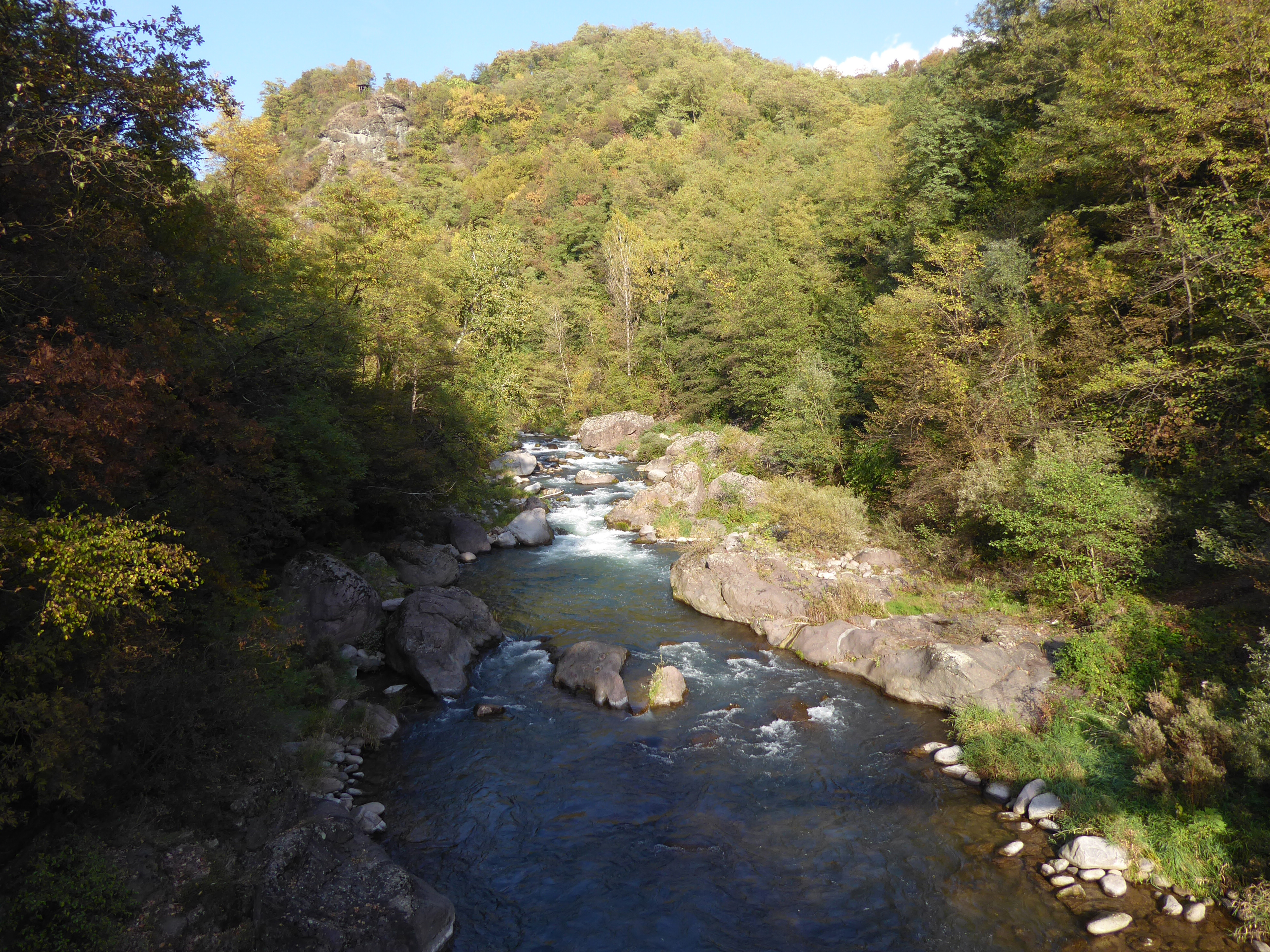 The Avisio river near the hydroeletric powet station of Pozzolago